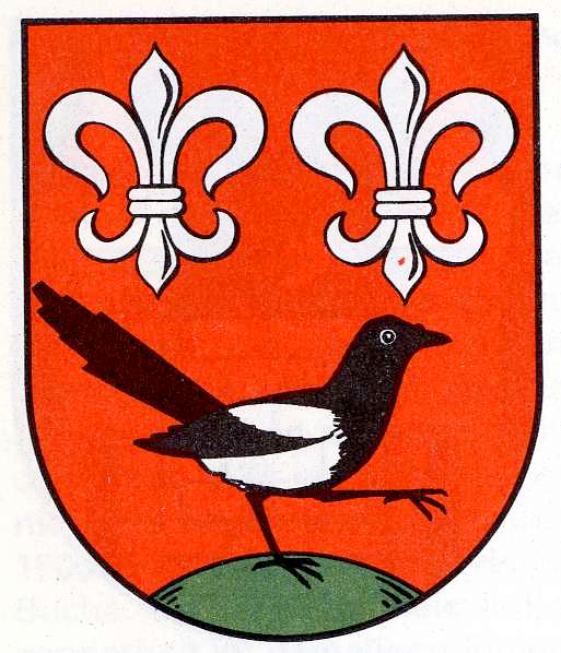 Old Coat of Arms of Elsterwerda